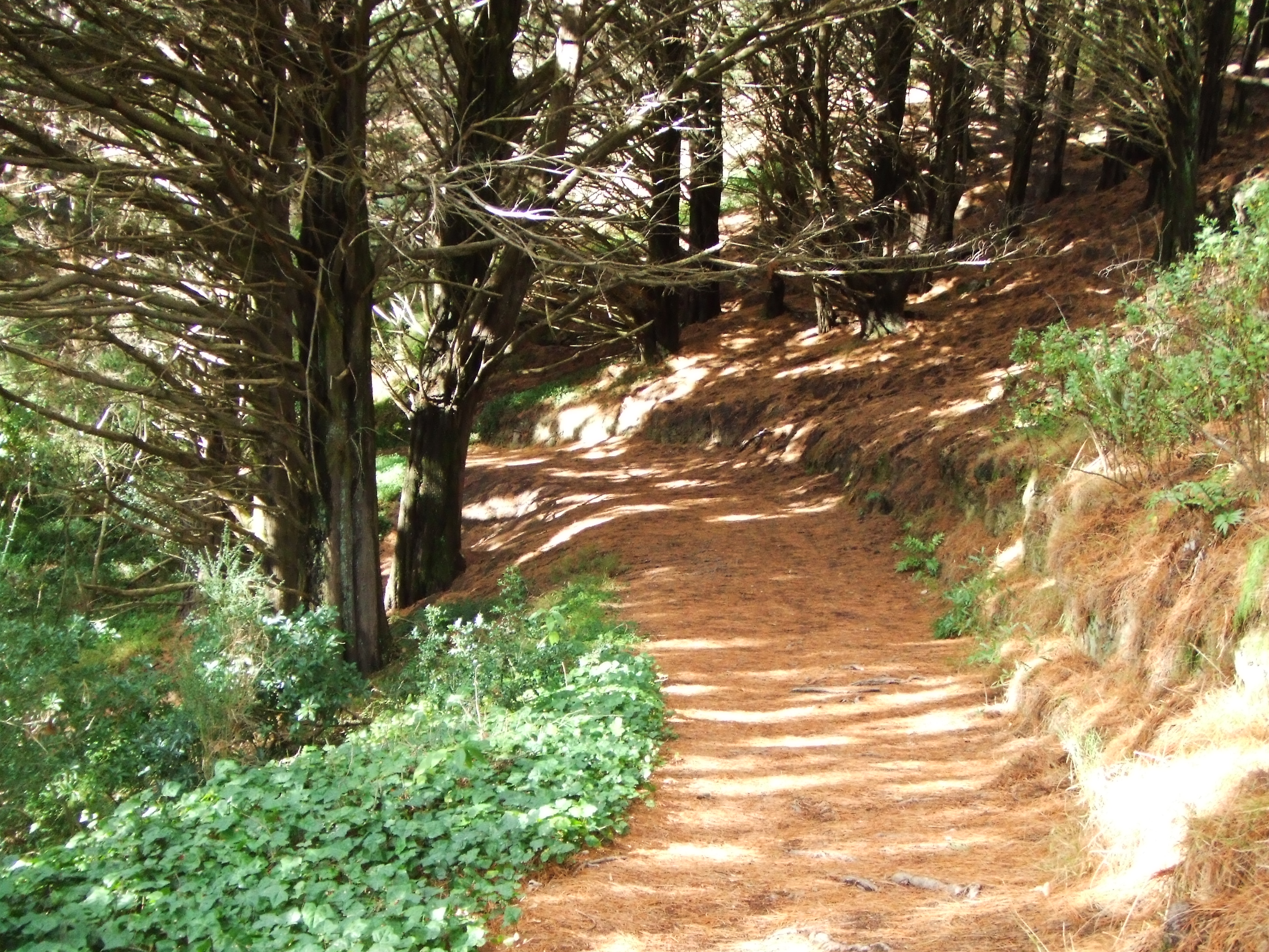 Wellington Town Belt Apparently this is one of the Lord of the Rings filming location, can you recognize it?